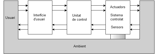 Reference architecture of an embedded system.